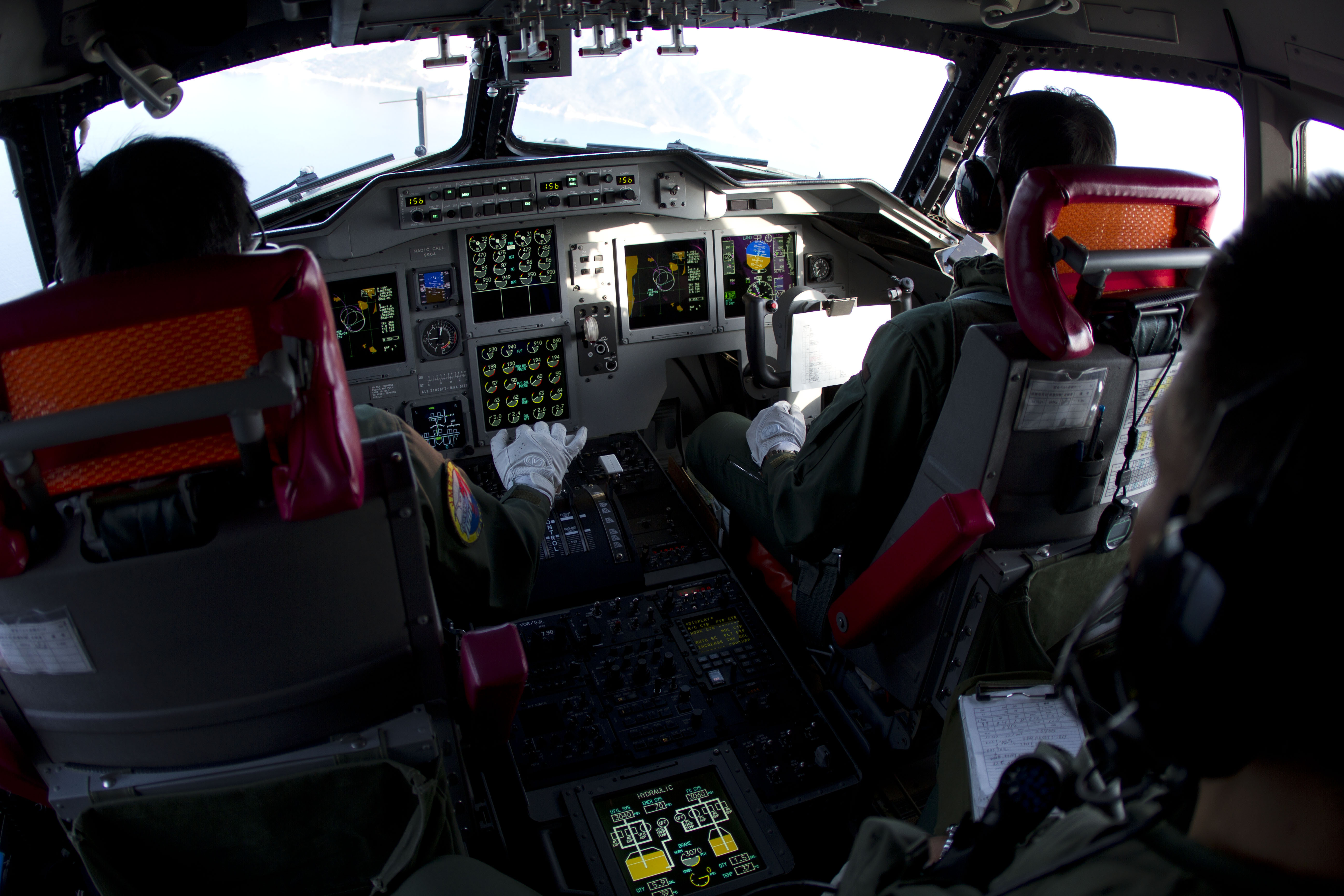 Japanese Maritime Self Defense Force (JMSDF) pilots fly the US-1A seaplane during a search and rescue training exercise at Marine Corps Air Station Iwakuni, Japan, Jan. 8, 2013. JMSDF conducted the search and rescue scenario to mark the US-1A's first flight of the year. (U.S. Marine Corps photo by Lance Cpl. Todd F. Michalek/Released)